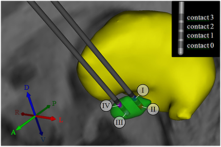 3D anatomical relationship between subcortical nuclei, and active contacts for models I–IV. The subthalamic nucleus (STN) is shown in green, while the thalamus is shown in yellow. For models I and II, the DBS electrode was placed in the posterolateral STN. For models III and IV, the electrode was shifted by 4 mm to a more anteromedial portion of the STN. The numbers I-IV indicate the selection of the active contact (cathode) for each of the four models. The inset in the upper right corner illustrates the consecutive numbering of the contact labels. Contact 2 was selected for monopolar stimulation in models I and IV, while contact 0 was selected for monopolar stimulation in models II and III. A, anterior; P, posterior; R, right; L, Left; D, dorsal; V, ventral.